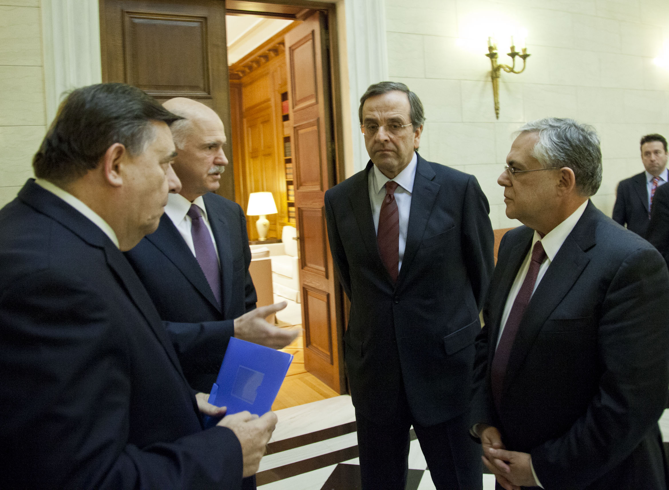 Greek Prime Minister Lucas Papademos meeting with government coalition party leaders. From left to right: Georgios Karatzaferis, George Papandreou, Antonis Samaras, Lucas Papademos